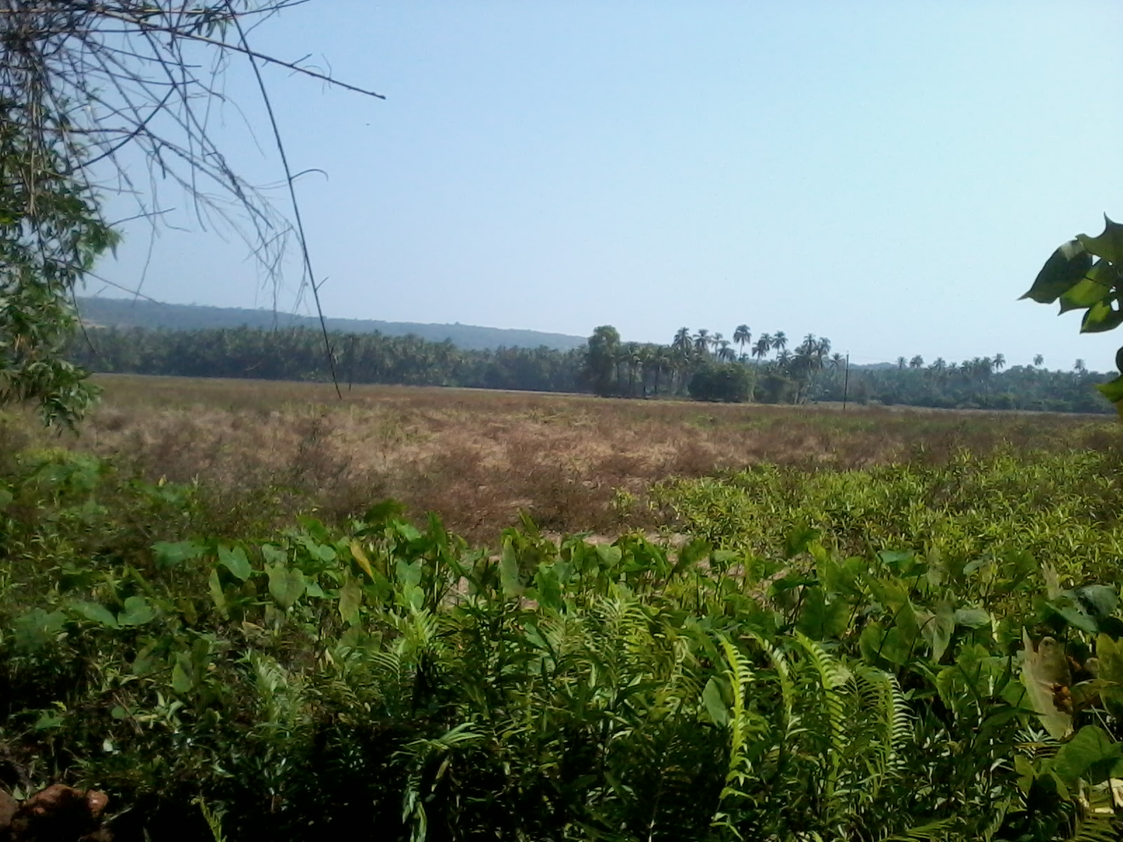 Barren land